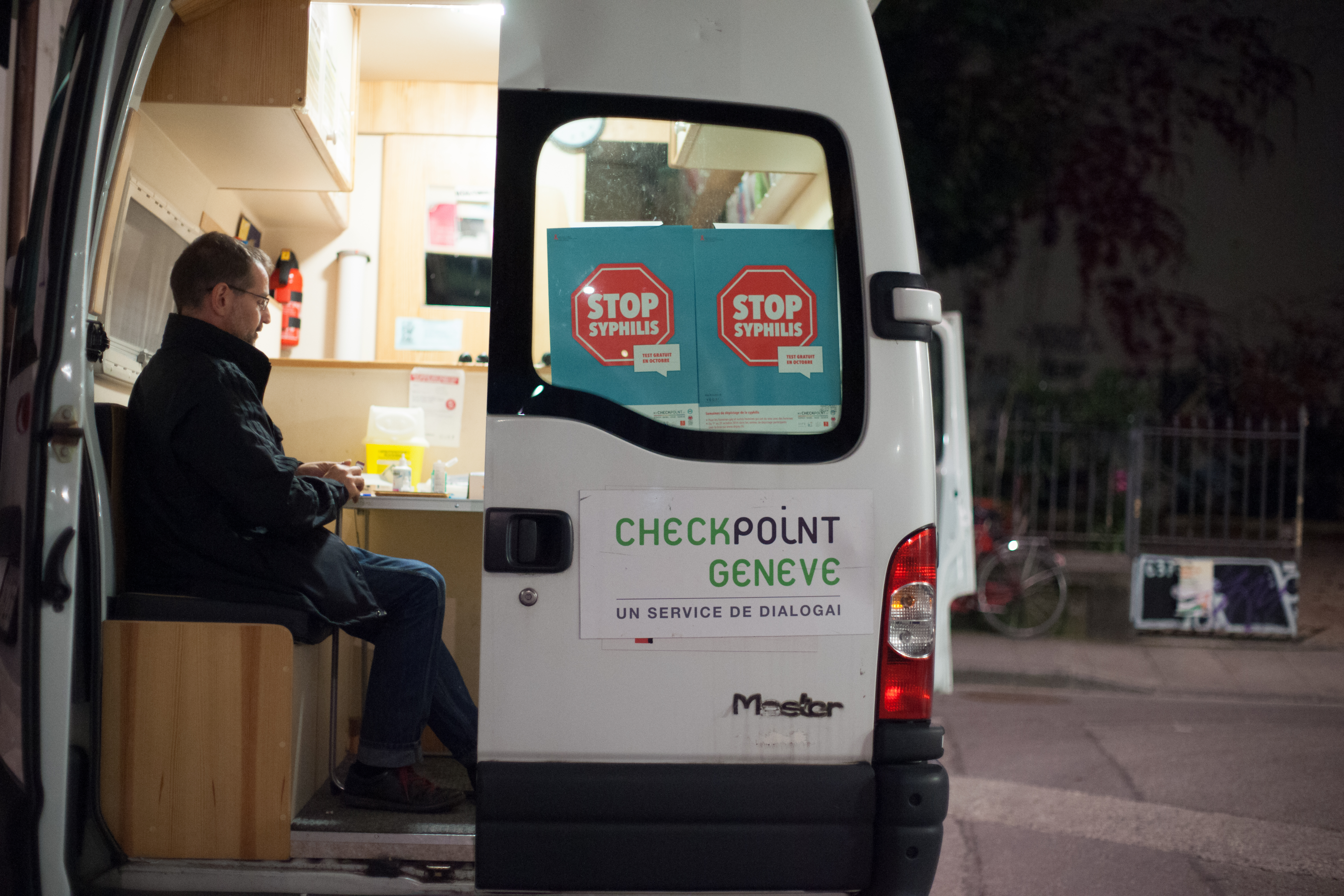 The making of this document was supported by Wikimedia CH. (Submit your project!) For all the files concerned, please see the category Supported by Wikimedia CH. SONY DSC